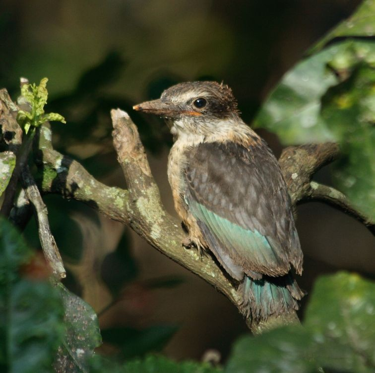 Juvenile Brown-hooded Kingfisher (Halcyon albiventris). This youngster has just emerged from its nest (at the end of a burrow in an earth bank), and is understandably still pretty grubby.